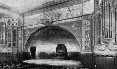 Steinway Hall in Chicago